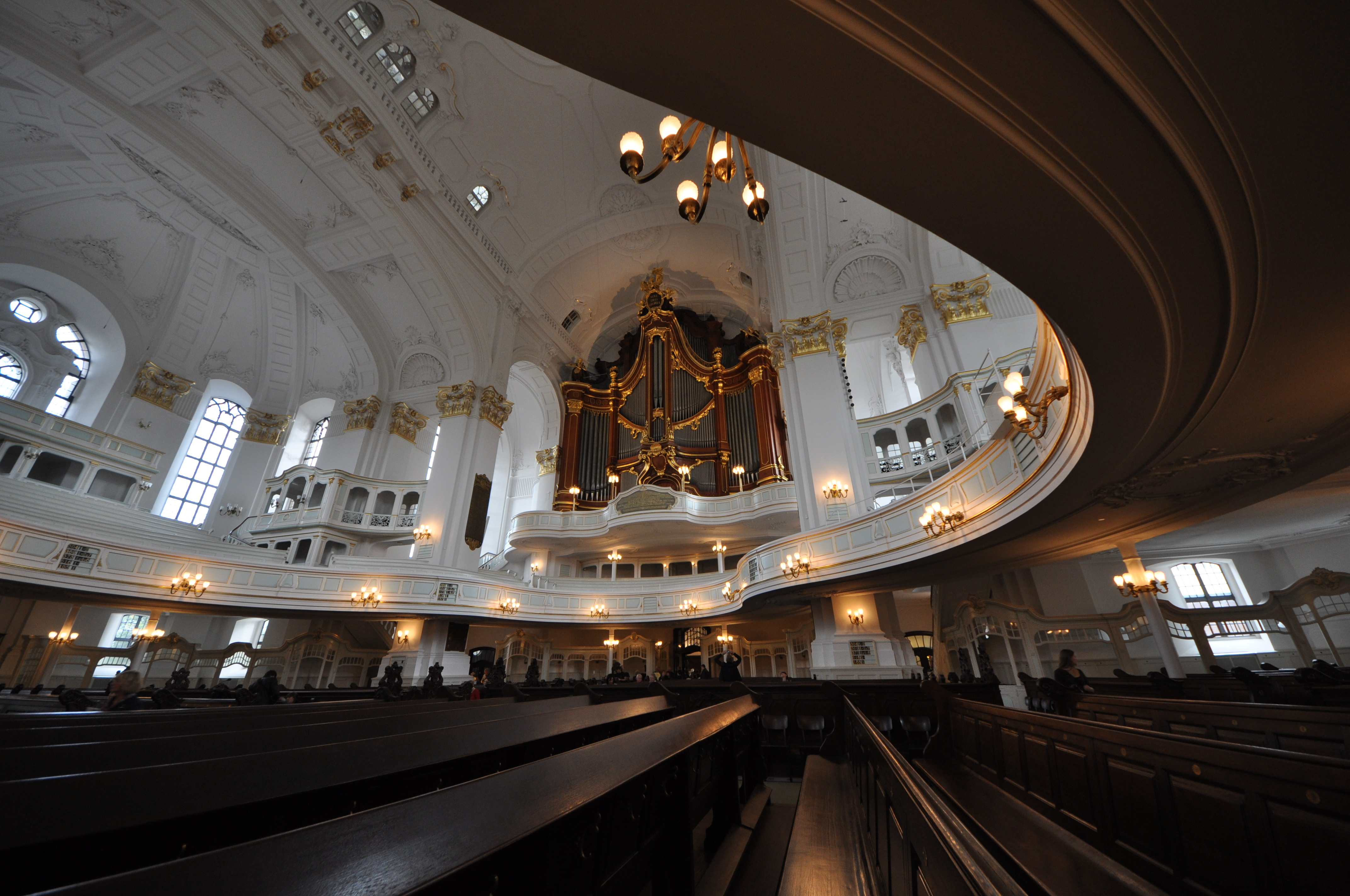 Inside St. Michaelis Church, Hamburg.This is a photograph of an architectural monument.